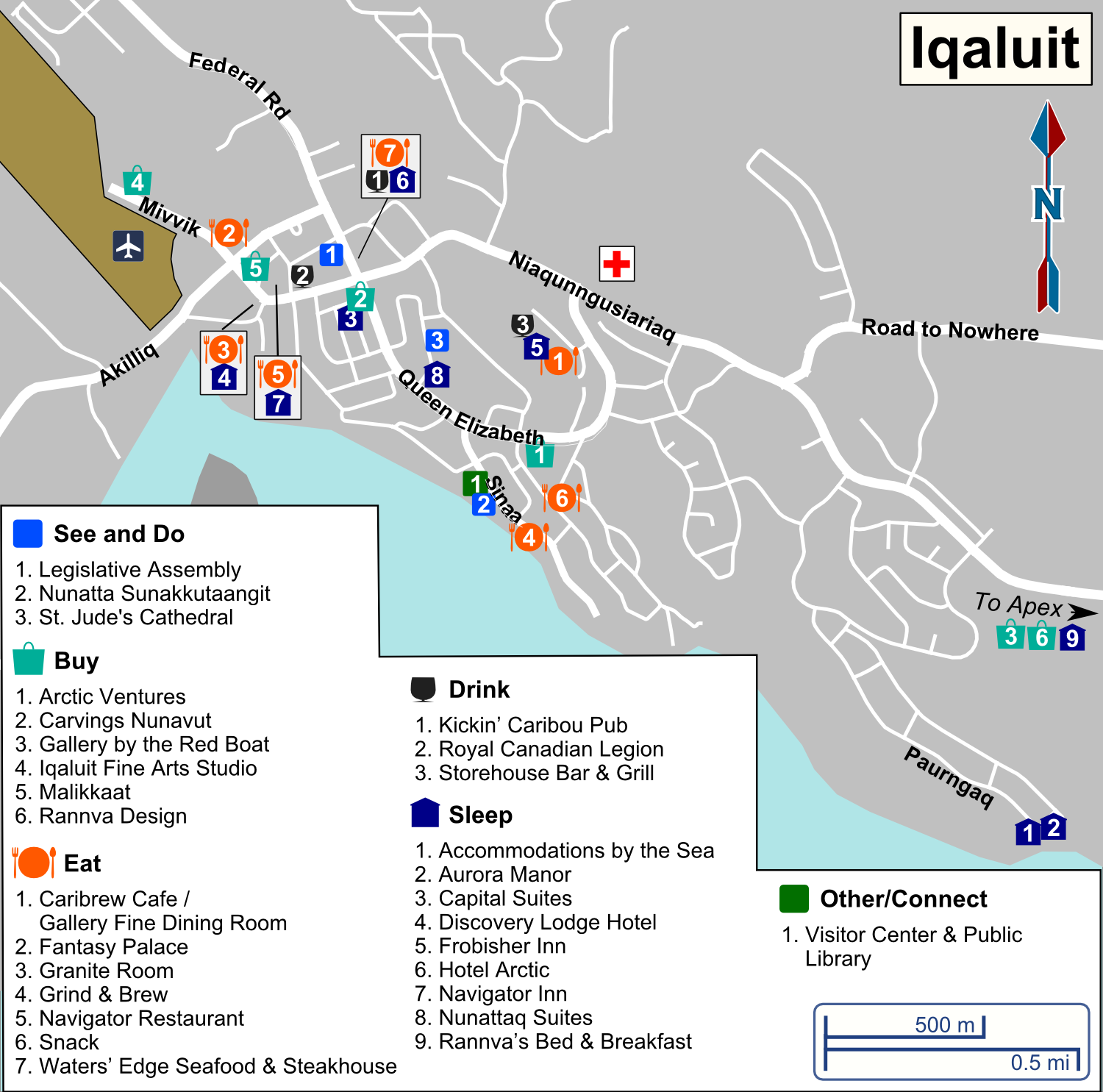 English Wikivoyage-style map of Iqaluit. Map projection is Mercator. Approximate scale is 1:30,000.